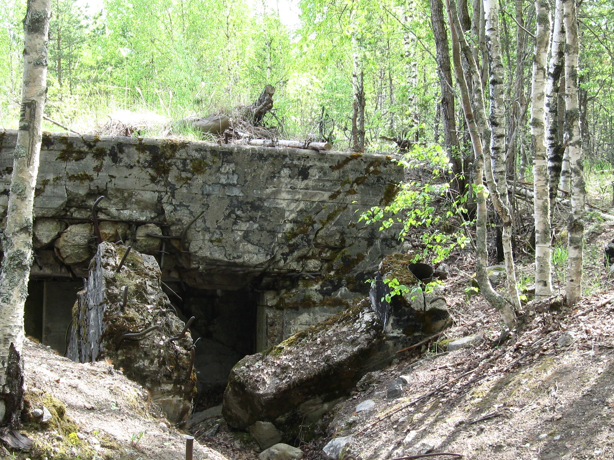 fort in high land 65 in Mannerheim Line